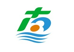 Flag of Minamisanriku Miyagi